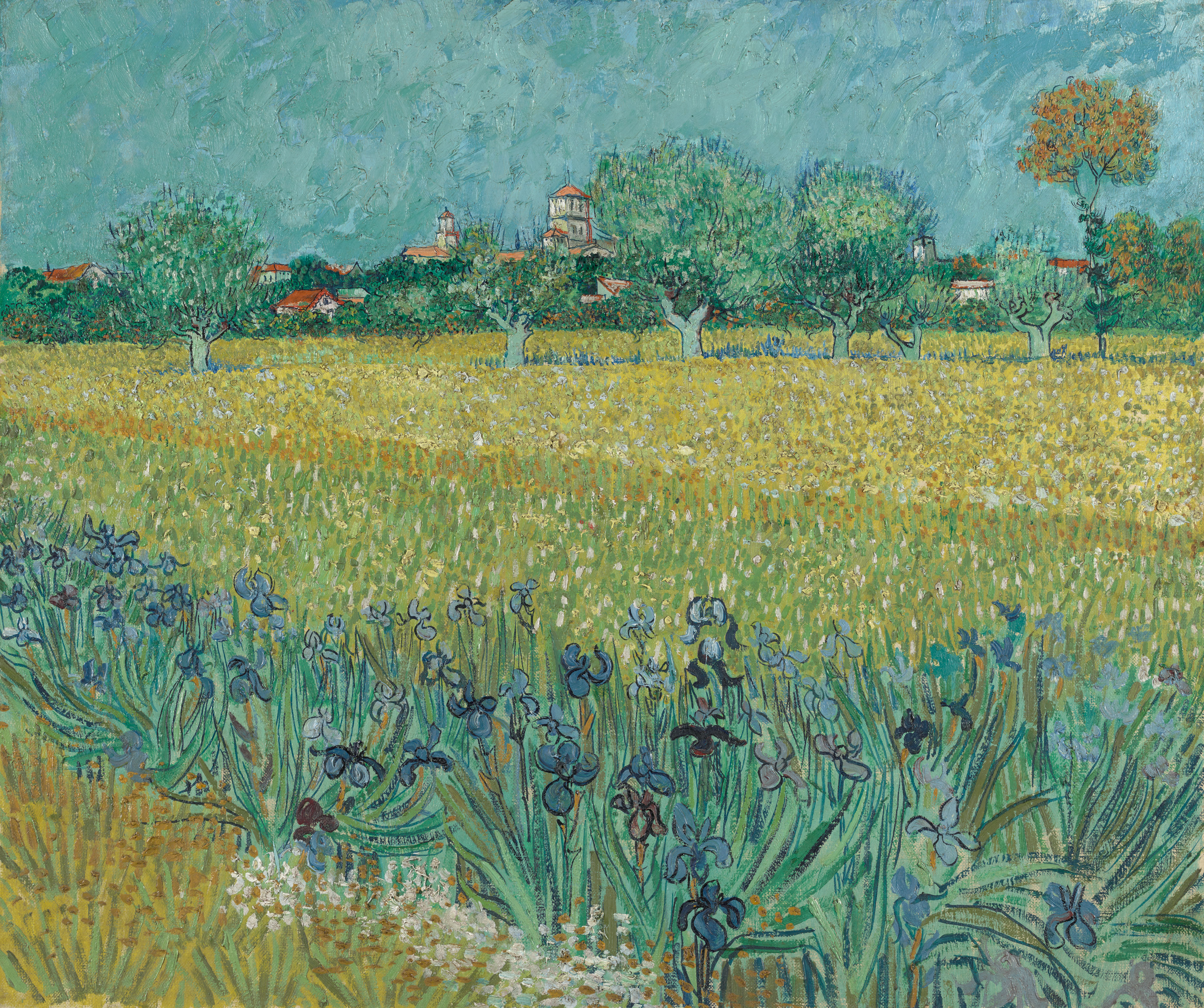 Painting by Vincent van Gogh, 1888